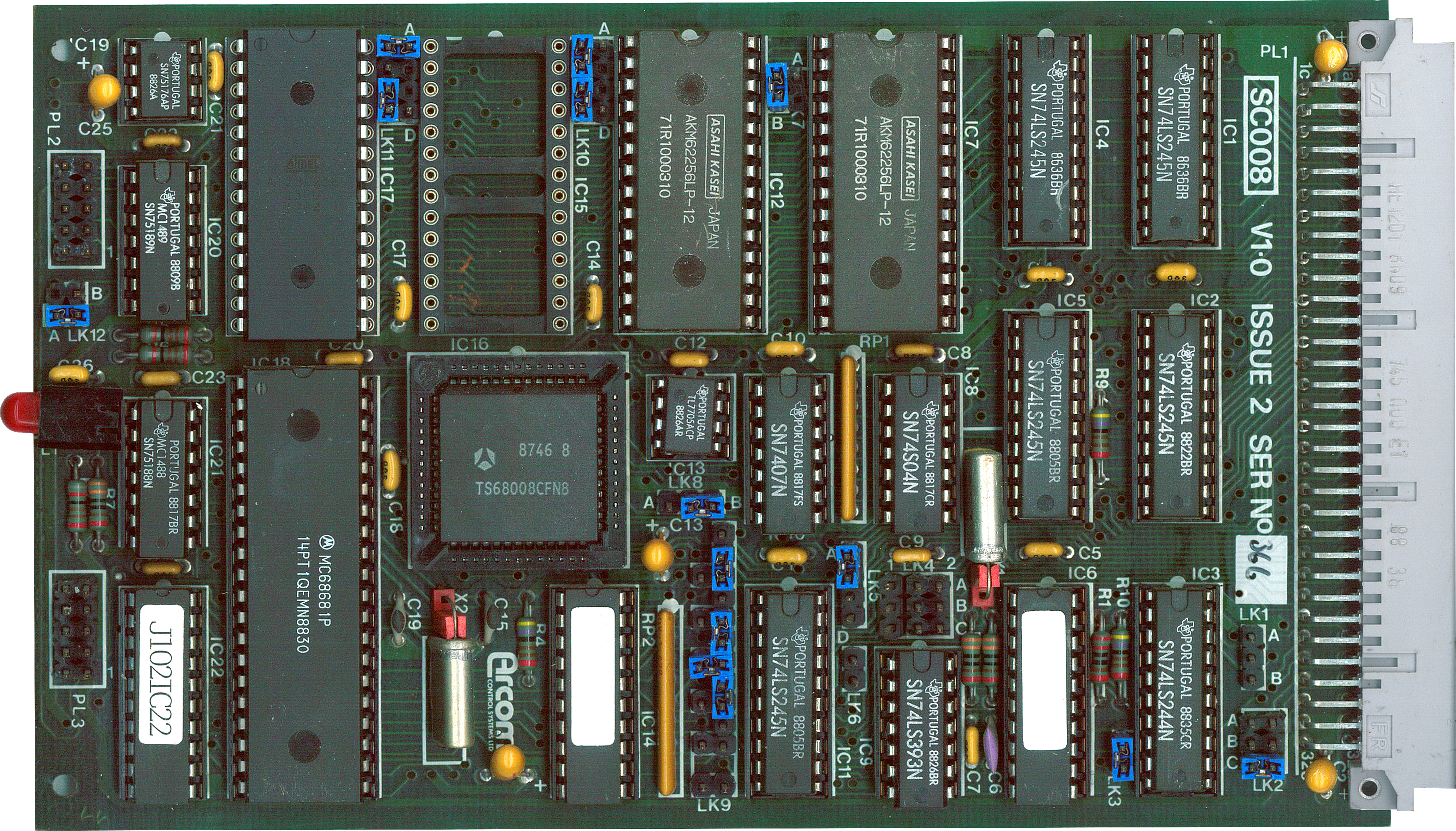 STEbus 68008 processor on 100x160mm Eurocard, capable of running OS/9 68K. Designed by Arcom Control Systems in 1986.